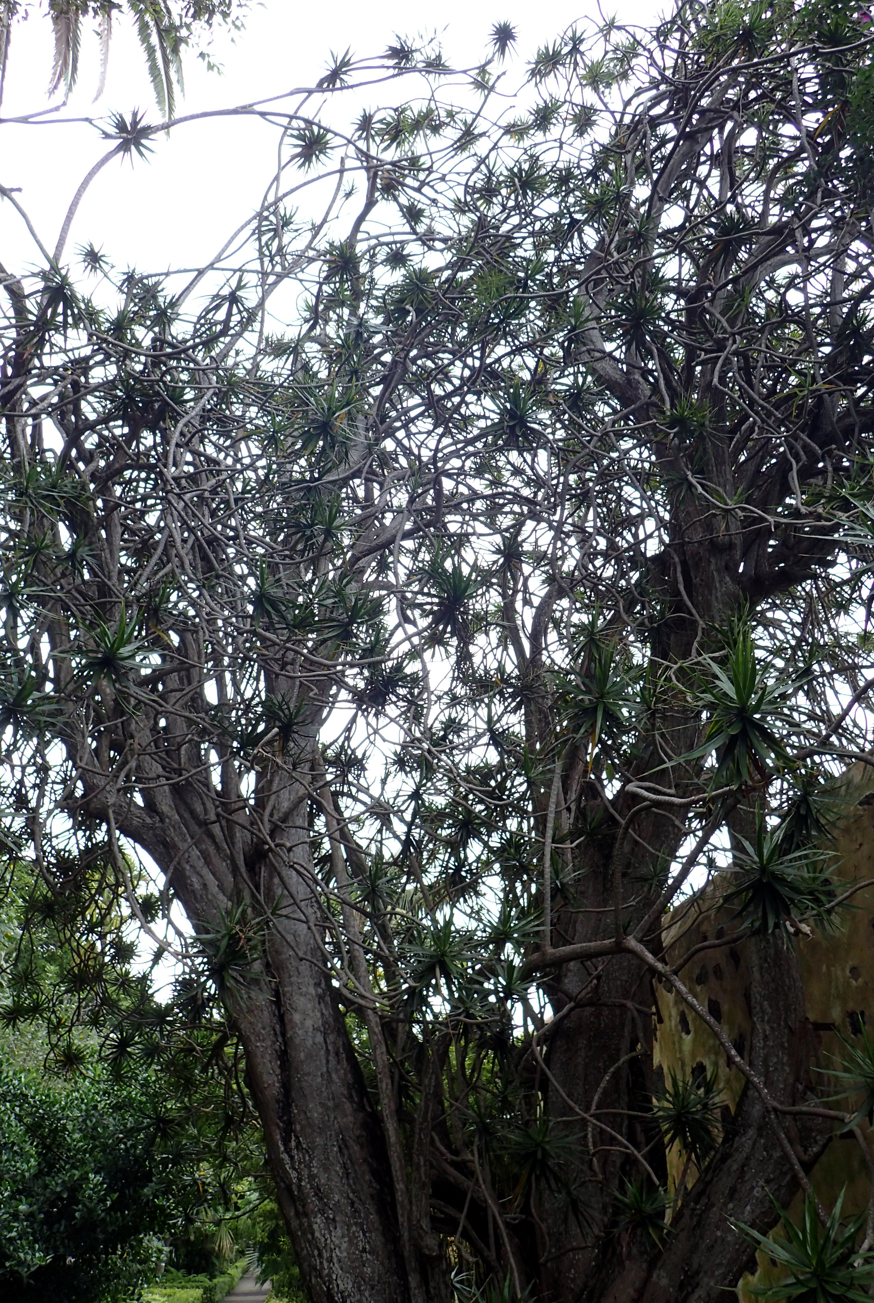 Dracaena marginata in Jardín de Aclimatación de la Orotava